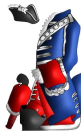 French Gardes du Corps uniform in 1758. Details are from the 1ère Compagnie Écossaise. Created by PMPdeL.